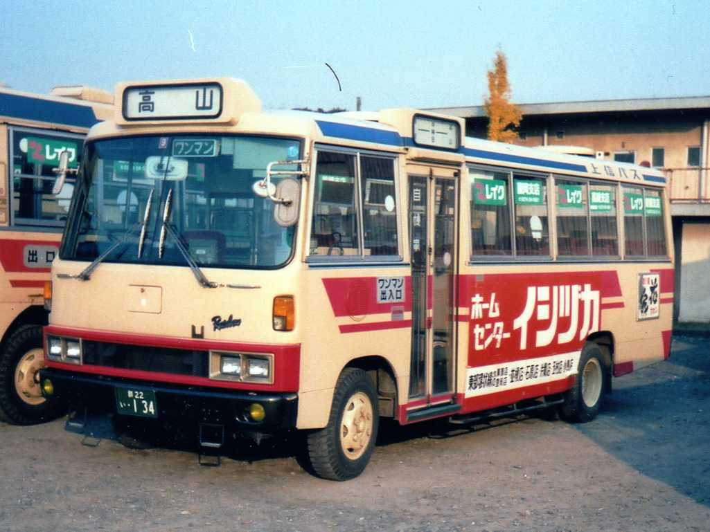 Joshin Dentetsu Bus Hino P-AC140AA in Fujioka Branch This picture is obtaining and photoing permission of the persons concerned.